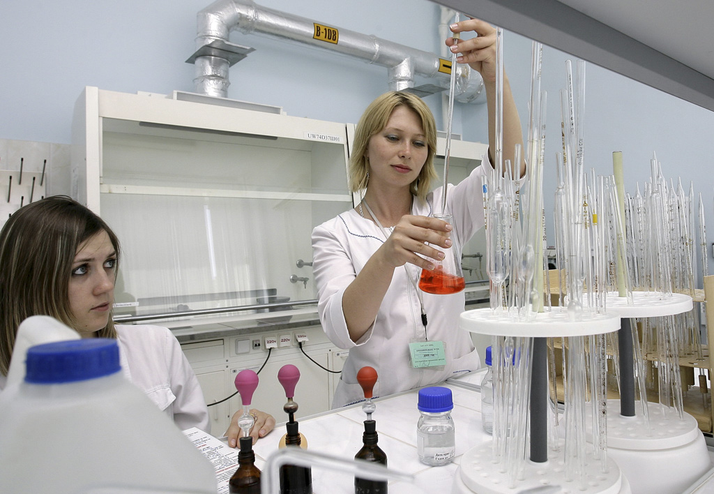 “Volgodonsk Nuclear Power Station”. Chemical lab of the Volgodonsk Nuclear Power Station.